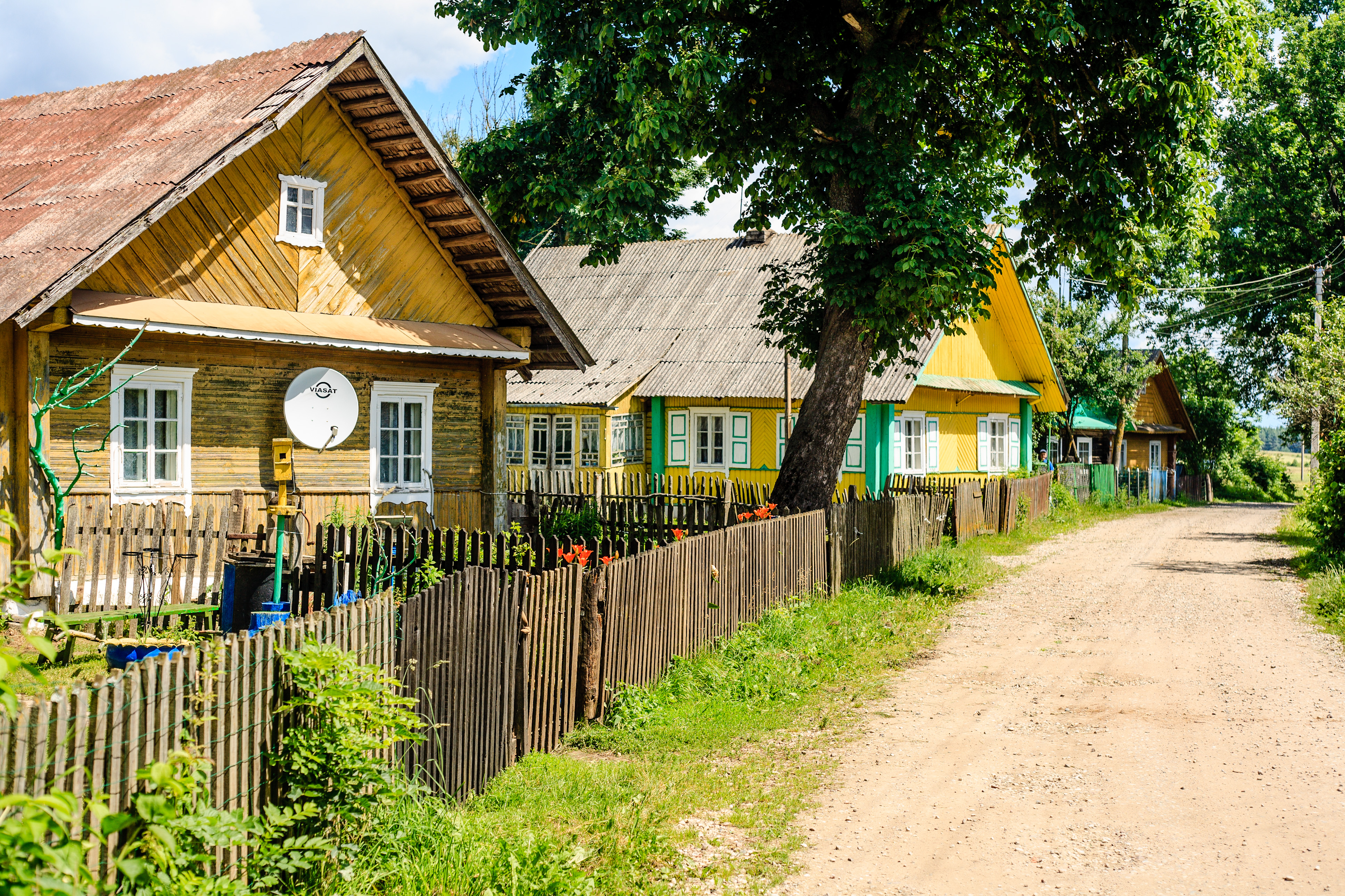 Ethnographic Žižmai village in Lithuania. The souternmost settlment of Lithuania with the ethnic Lithuanian majority.